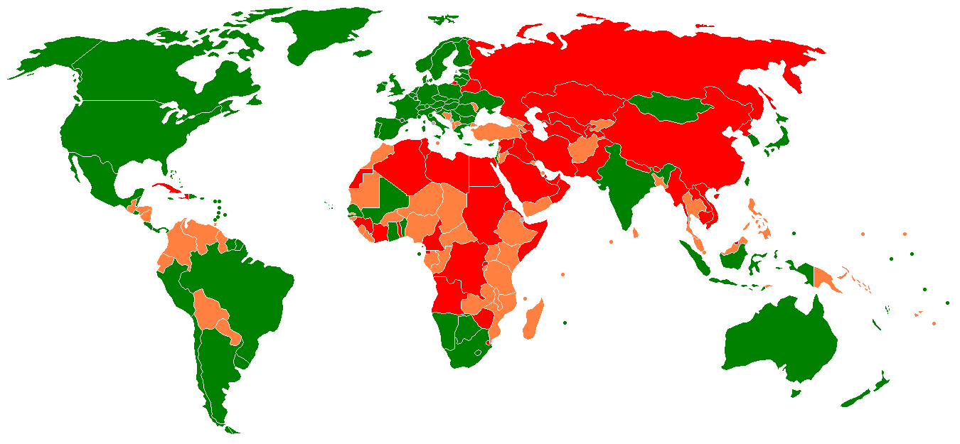 The Map of Freedom reflects the findings of Freedom House's 2006 survey Freedom in the World (PDF). Freedom in the World monitors the gains and losses for political rights and civil liberties in 192 nations and 18 related and disputed territories. For each country, the survey provides a concise report on political and human rights developments, along with ratings of political rights and civil liberties. Countries are divided into three categories: Free (green), Partly Free (orange), and Not Free (red), as reflected in the Map of Freedom. In Free countries, citizens enjoy a high degree of political and civil freedom. Partly Free countries are characterized by some restrictions on political rights and civil liberties, often in a context of corruption, weak rule of law, ethnic strife, or civil war. In Not Free countries, the political process is tightly controlled and basic freedoms are denied.